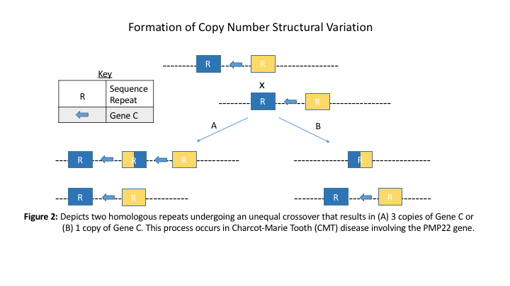 Depicts two homologous repeats undergoing an unequal crossover